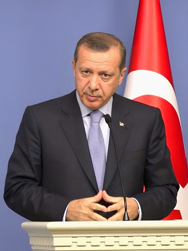 Minister-president Erdoğan, November 2012. This file has been extracted from another file: Persconferentie met Erdoğan en Rutte in Turkije.jpg